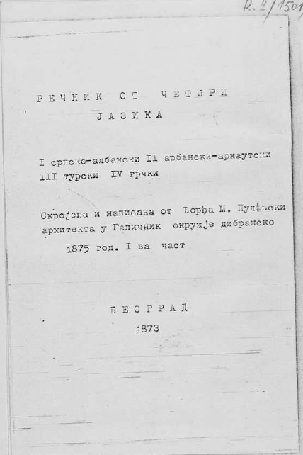 The cover page of the book "Dictionary of four languages" published by Gjorgjija Pulevski in 1873.